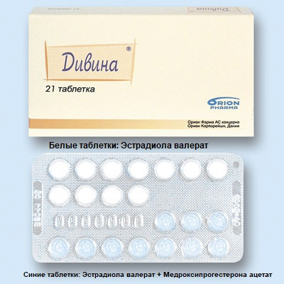 estradiol valerate